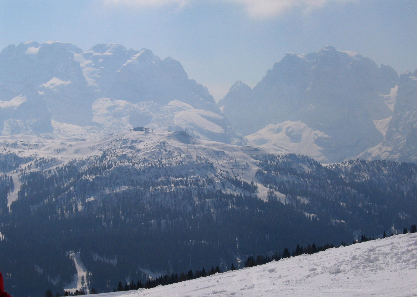 View from Folgarida on Dolomites (Brenta Group)